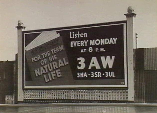 Billboard advertising the reading of Marcus Clarke's For the Term of His Natural life, on radio 3AW.